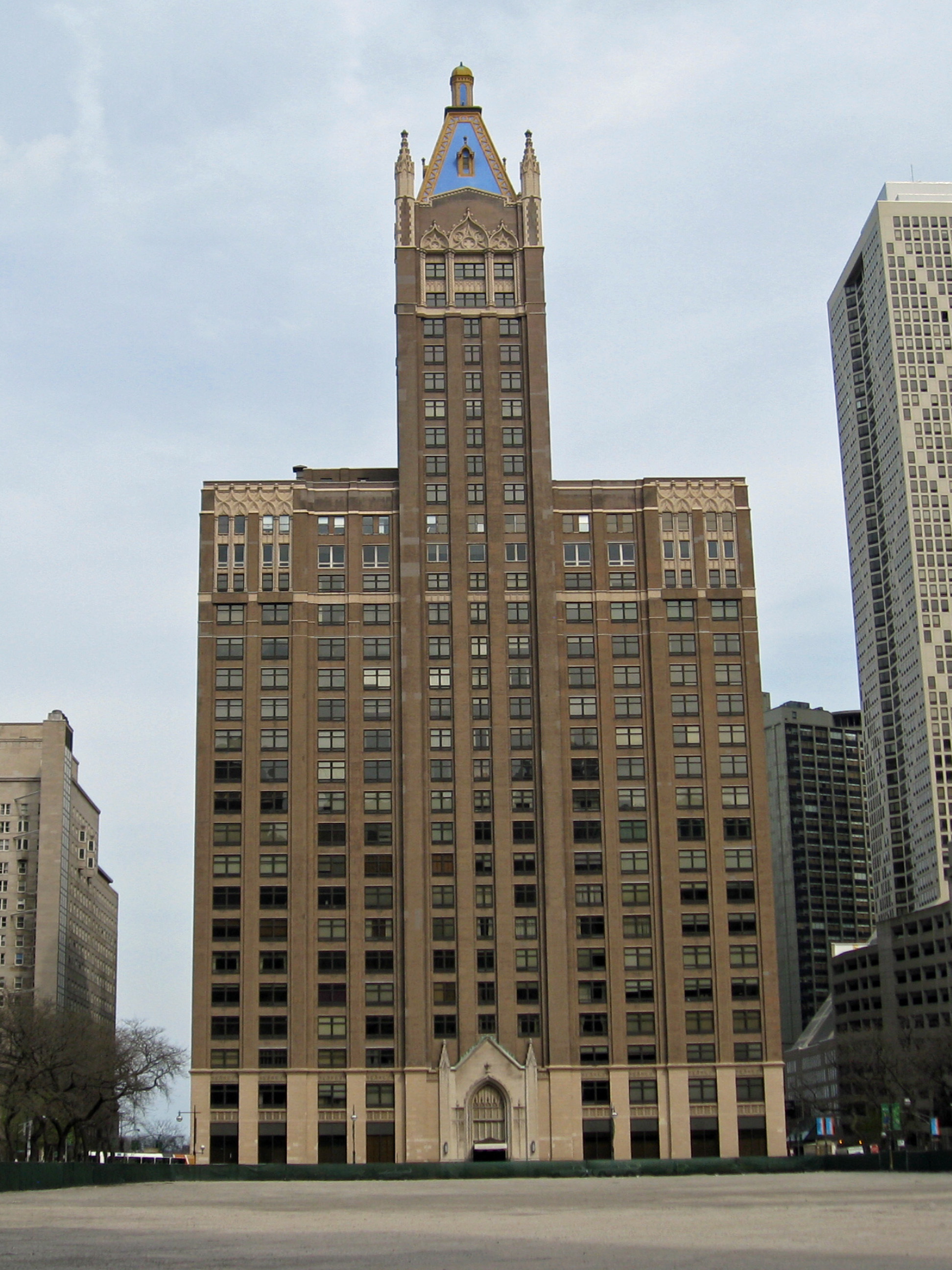 680 North Lakeshore Dr. Former American Furniture Mart Building